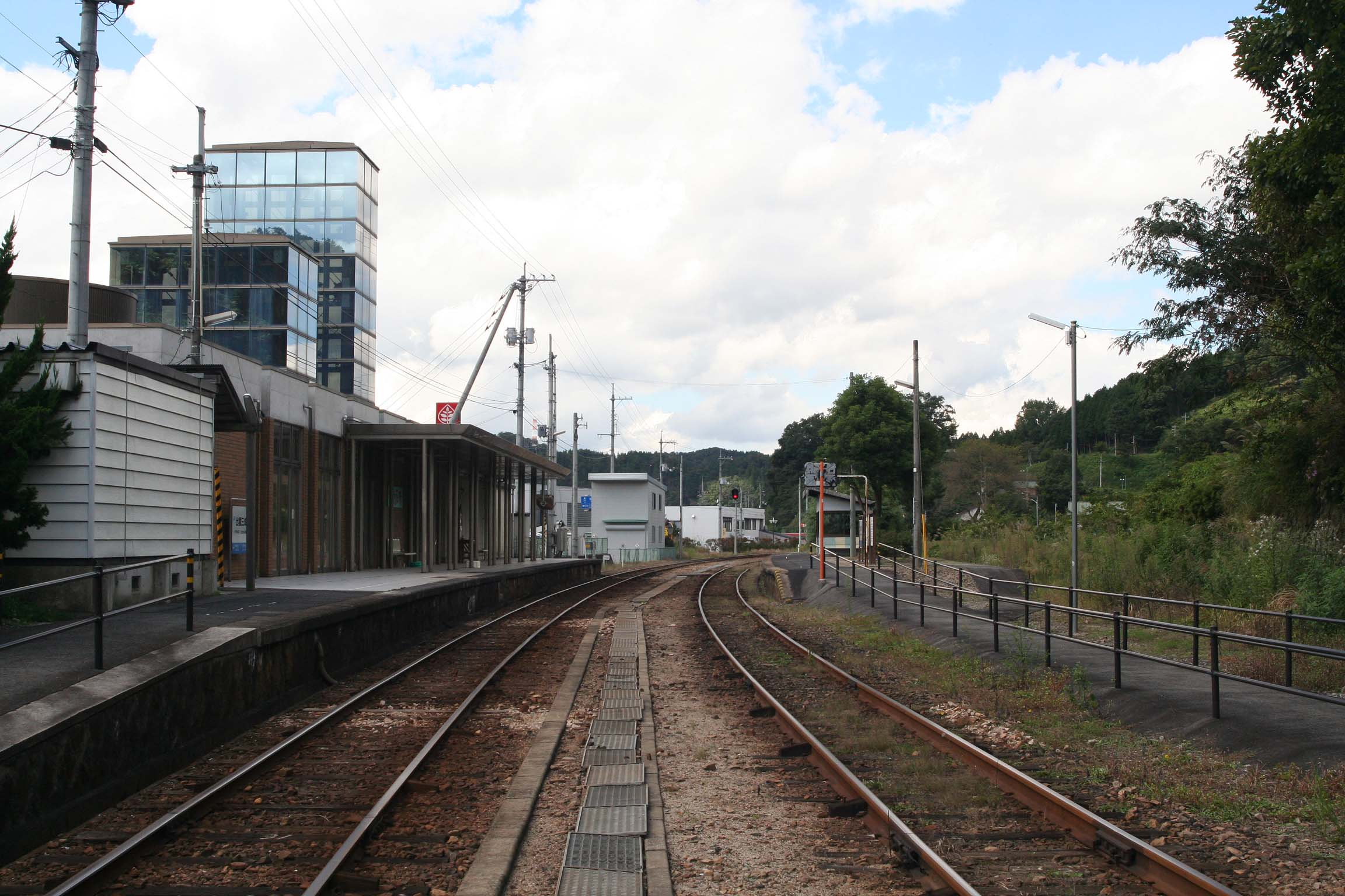 West Japan Railway, Kisuki Line, Izumo Minari Station.